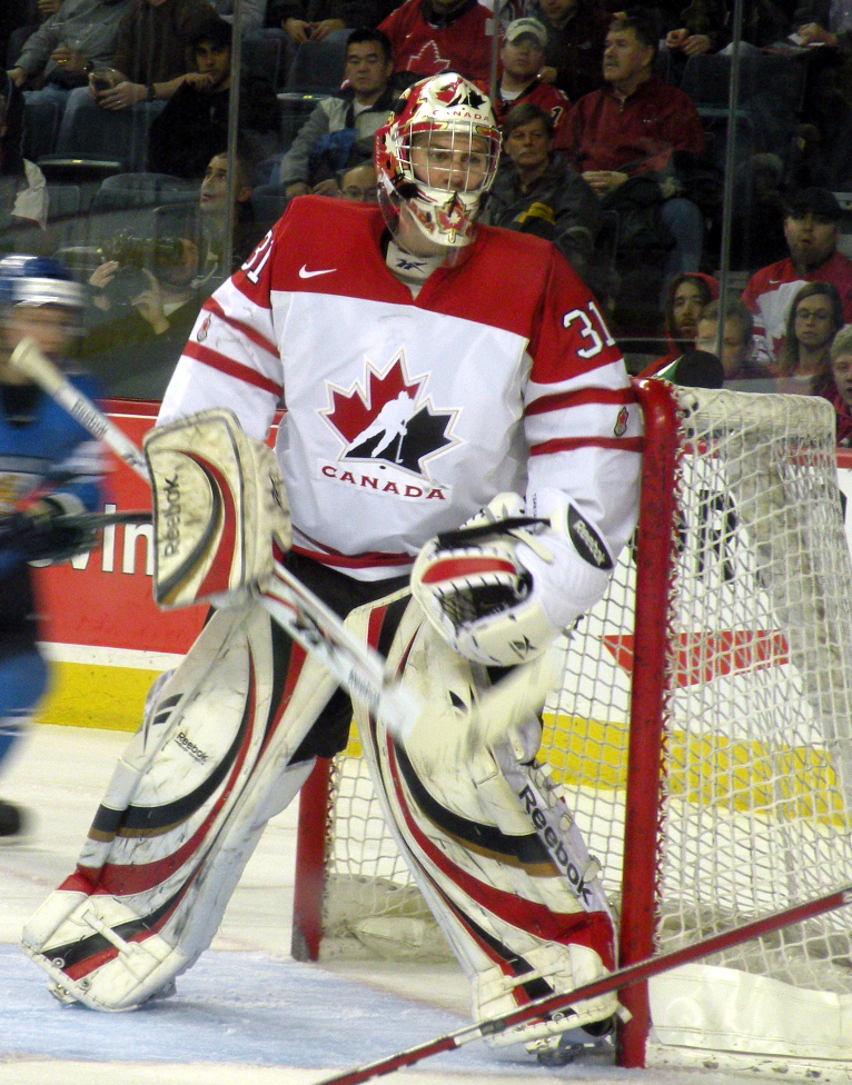 Team Canada goaltender Martin Jones during an exhibition game against Team Finland in Calgary.